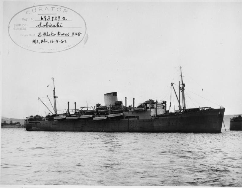 HMS Sobieski At anchor on the Clyde.